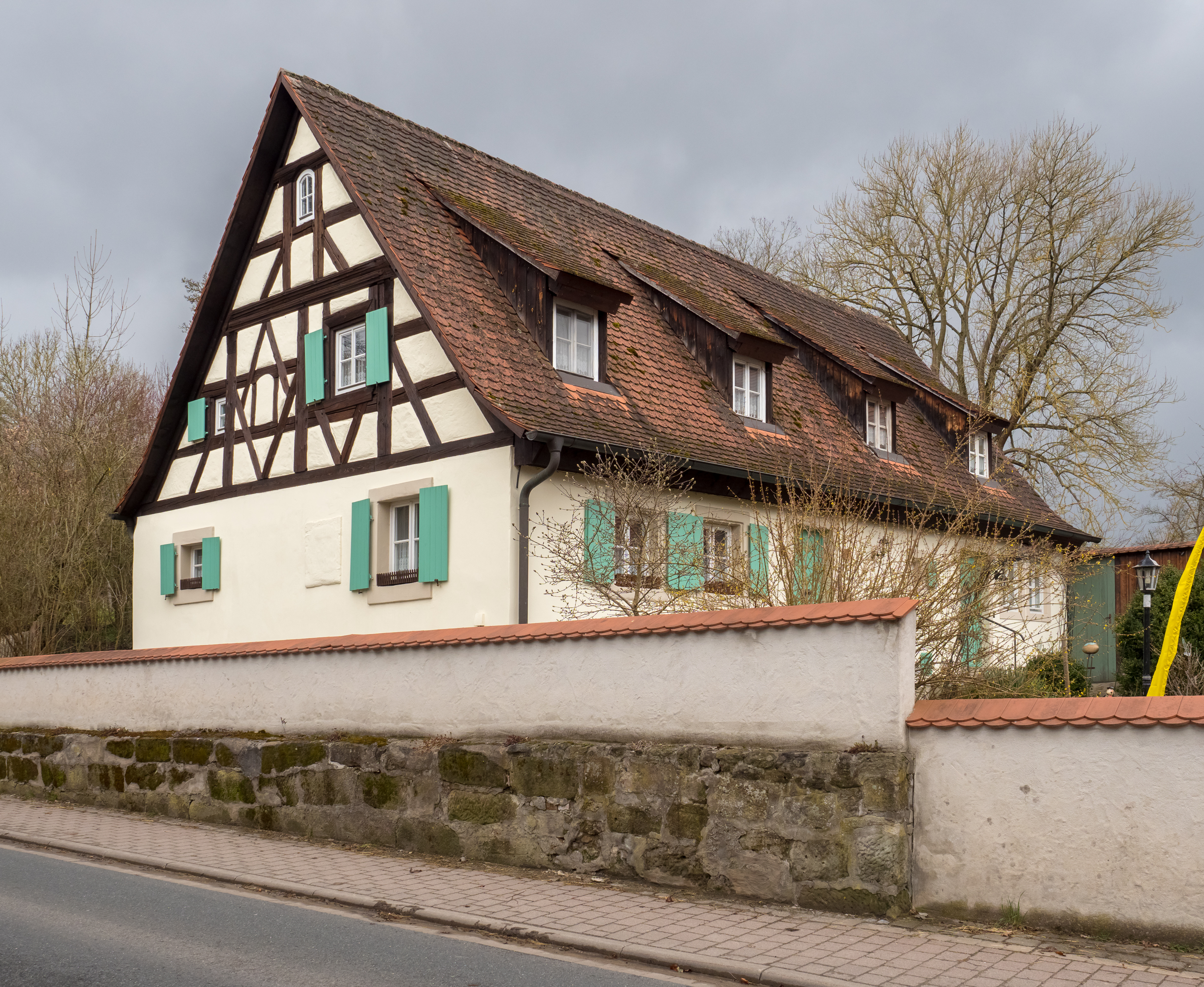 Small farm in Steppach